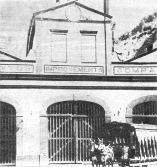 City's workshops.